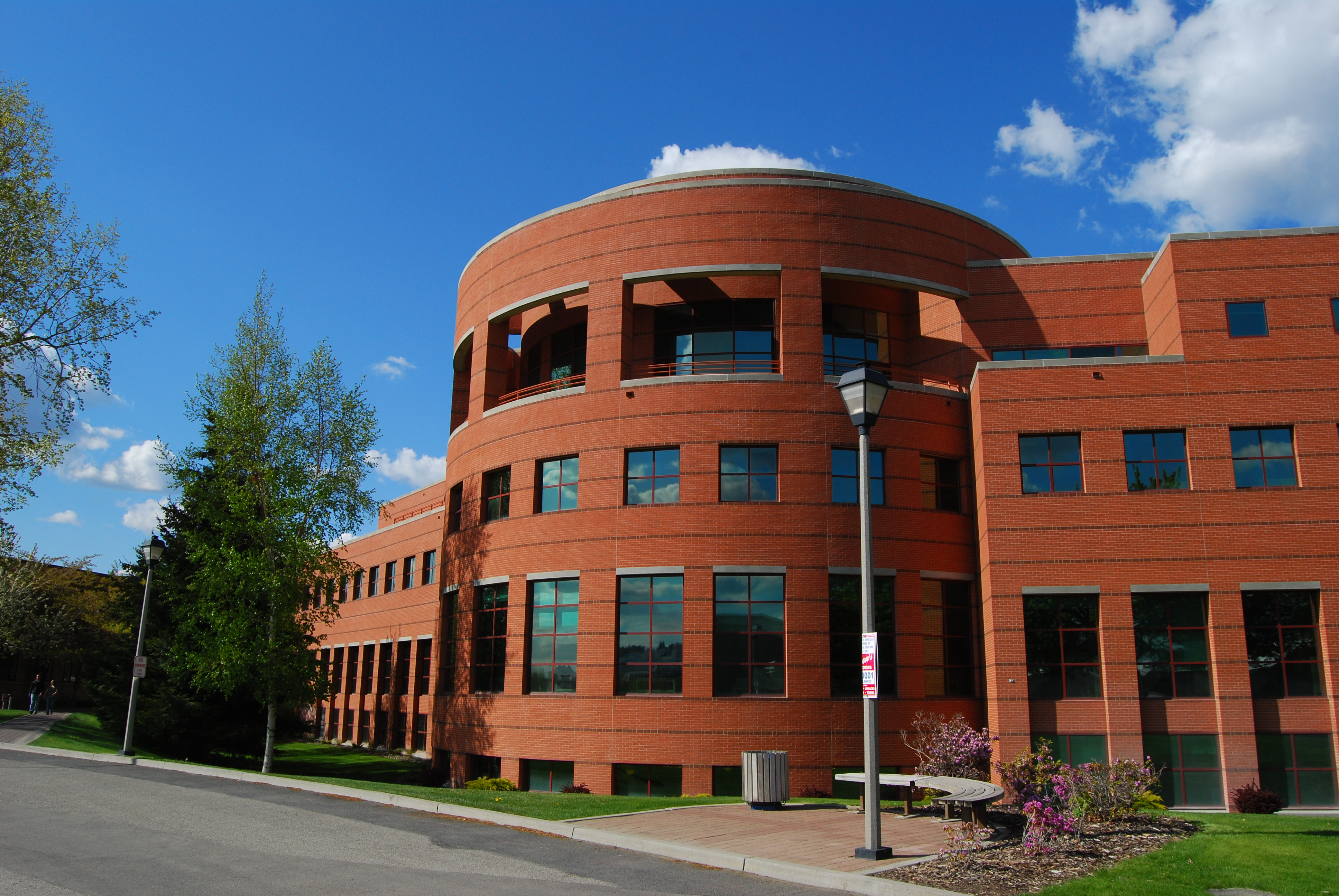 The Foley Center Library at Gonzaga University in Spokane, WA. © Matthew Hendricks